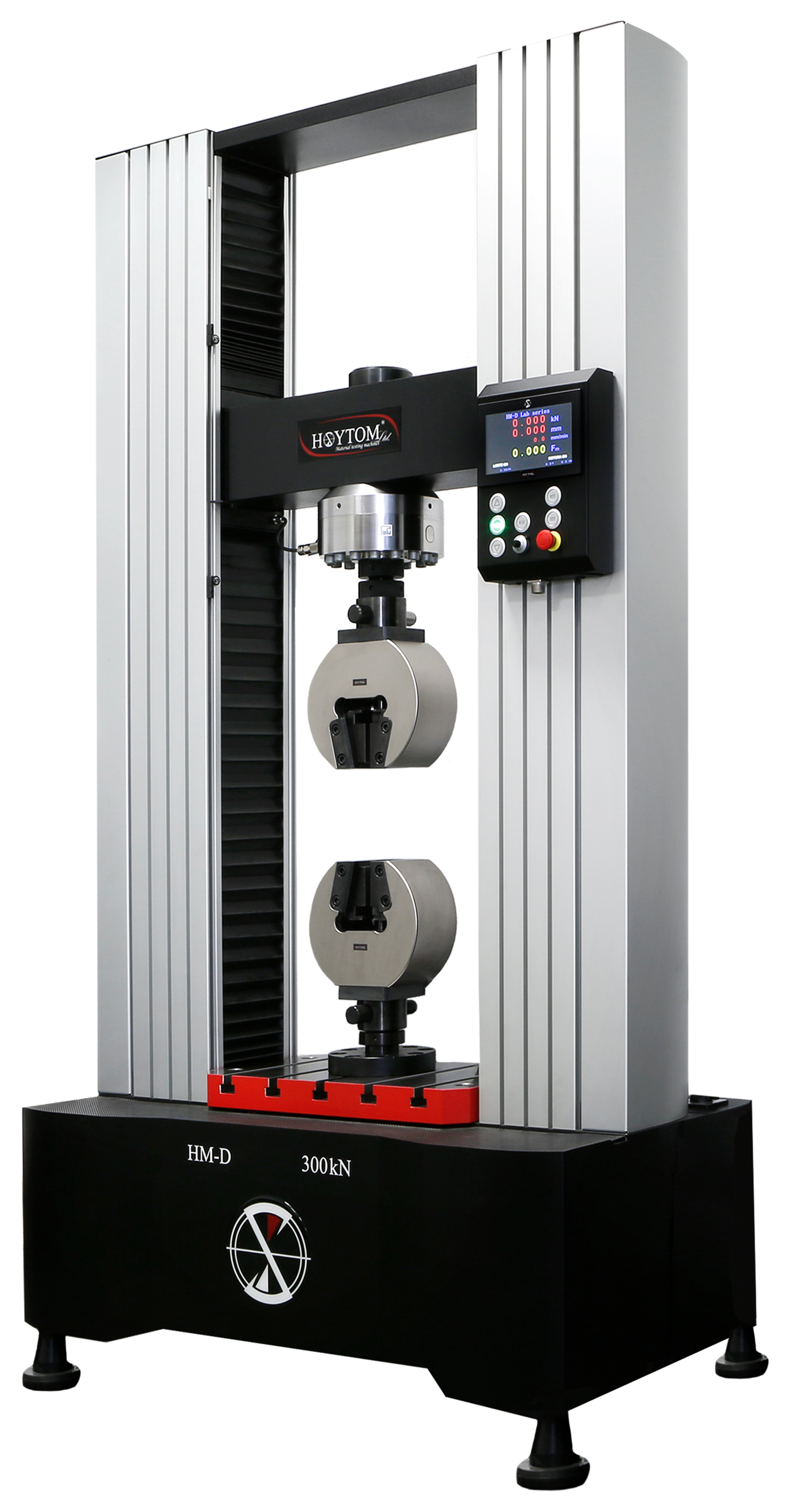 A modern universal testing machine.